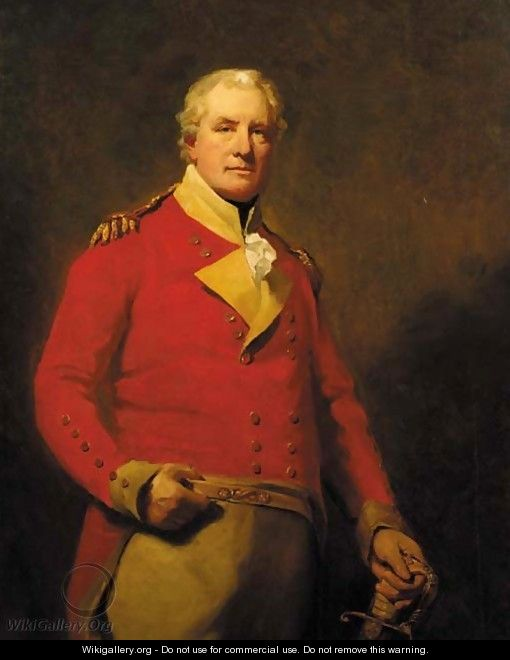 "Portrait of Lieutenant-General Alexander Mackenzie Fraser of Inverallochy, M.P. (c.1758-1809)".